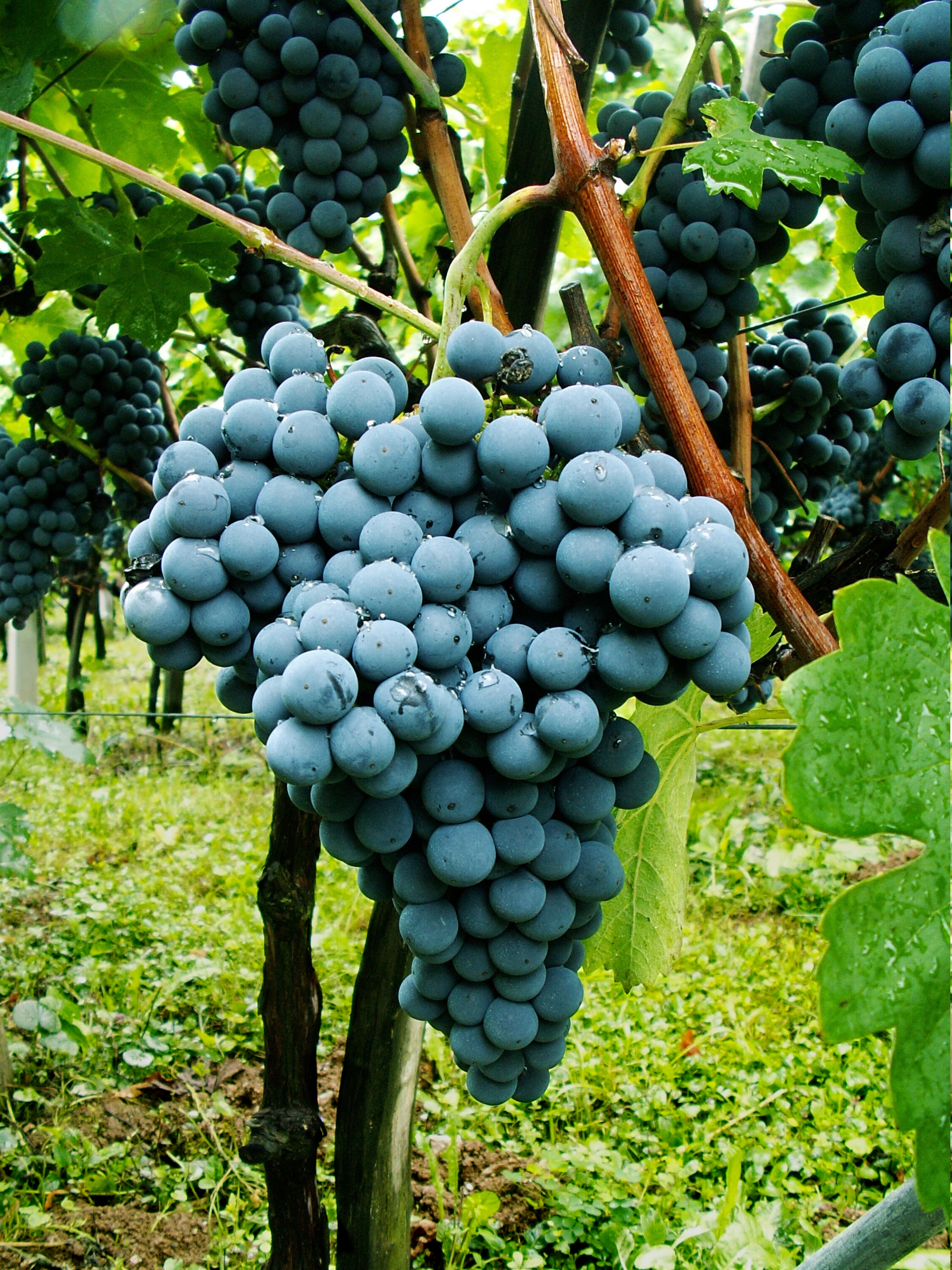 Graps of Slovenian Red Wine Variety Zametovka